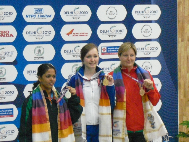 Medalists of the 50 metre rifle prone singles women at the 2010 Commonwealth Games in Delhi. From the left: Tejaswini Sawant, Jen McIntosh, and Johanne Brekke.